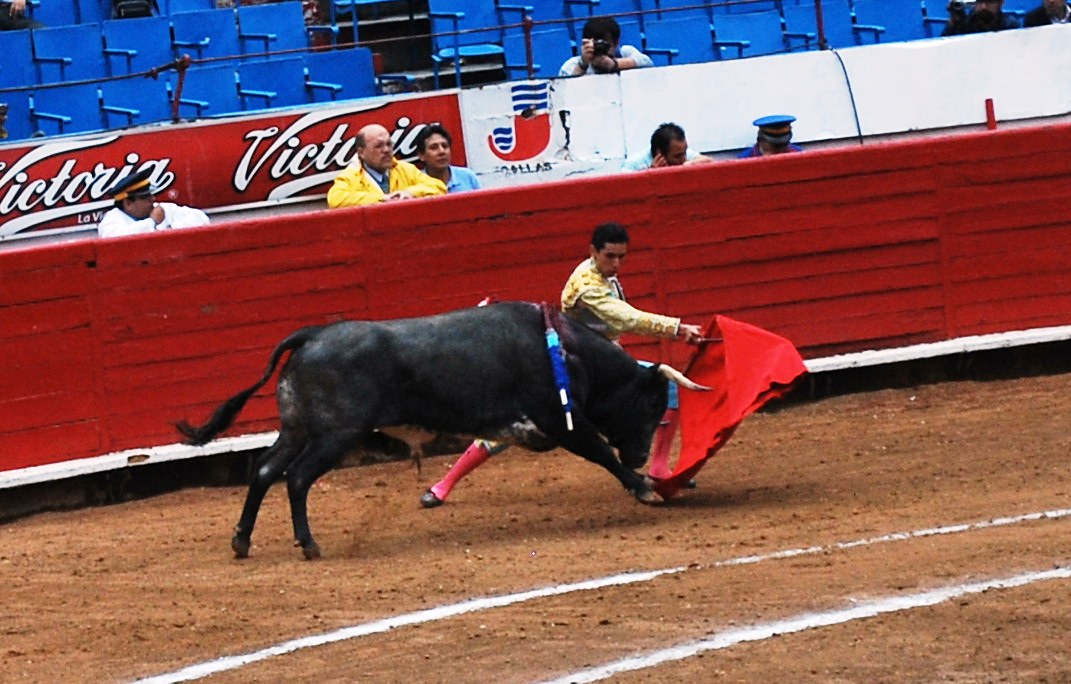 Platero and matador Jaime Manuel Ruiz Torres at the 28 June 2009 event at the Plaza de Toros in Mexico City.